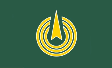 Flag of Kamikatsu Tokushima